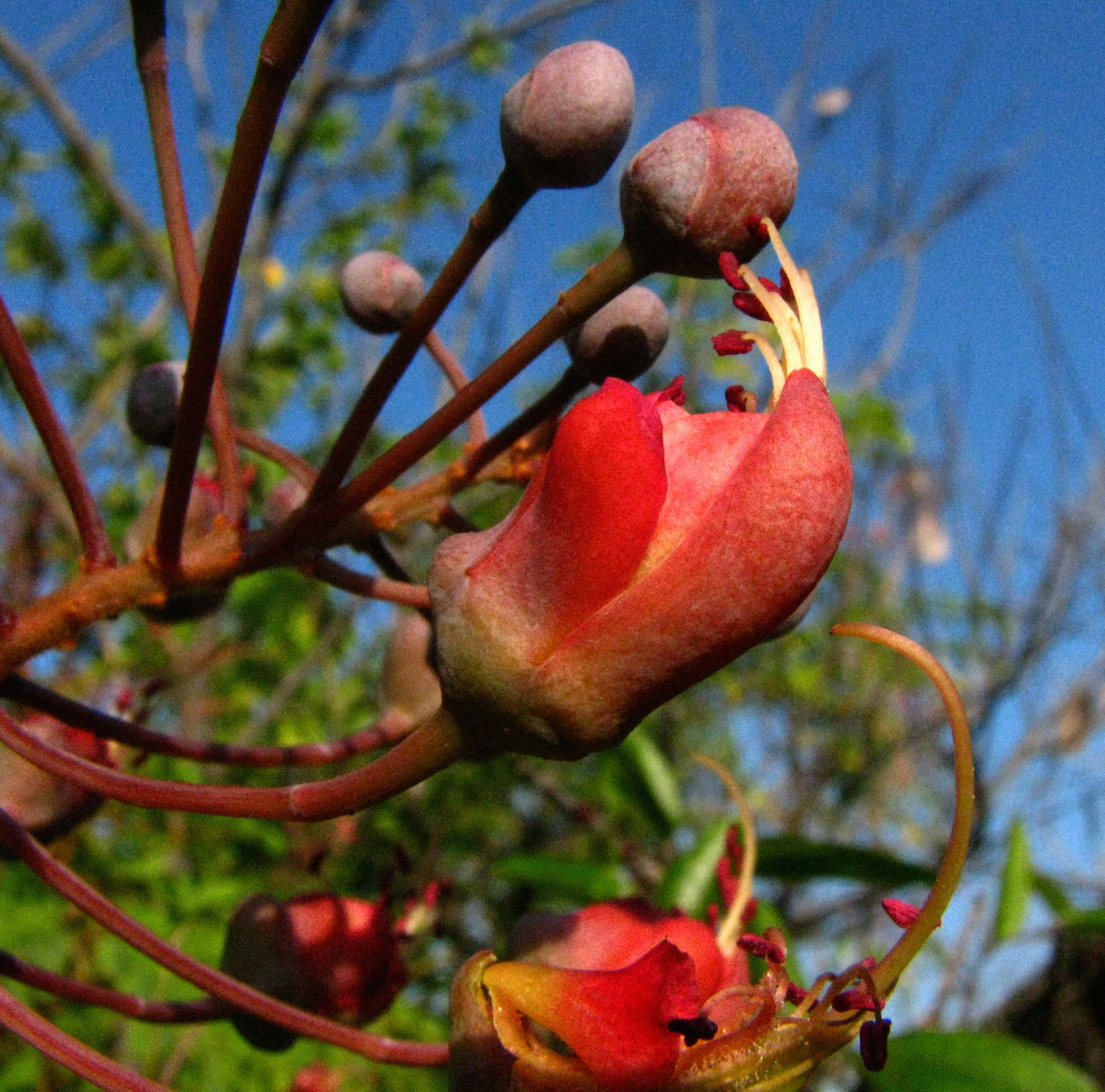 [syn. Caesalpinia kavaiensis] Uhiuhi Fabaceae Endemic to the Hawaiian Islands Endangered Oʻahu (Cultivated), Hawaiʻi Island form